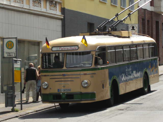 Driver's school bus Uerdingen Henschel ÜH III